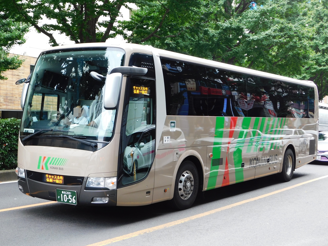 Konan bus Mitsubishi Fuso Aero Ace (QTG-MS96VP)highwaybus "Castle-go"(Hirosaki-Sendai)